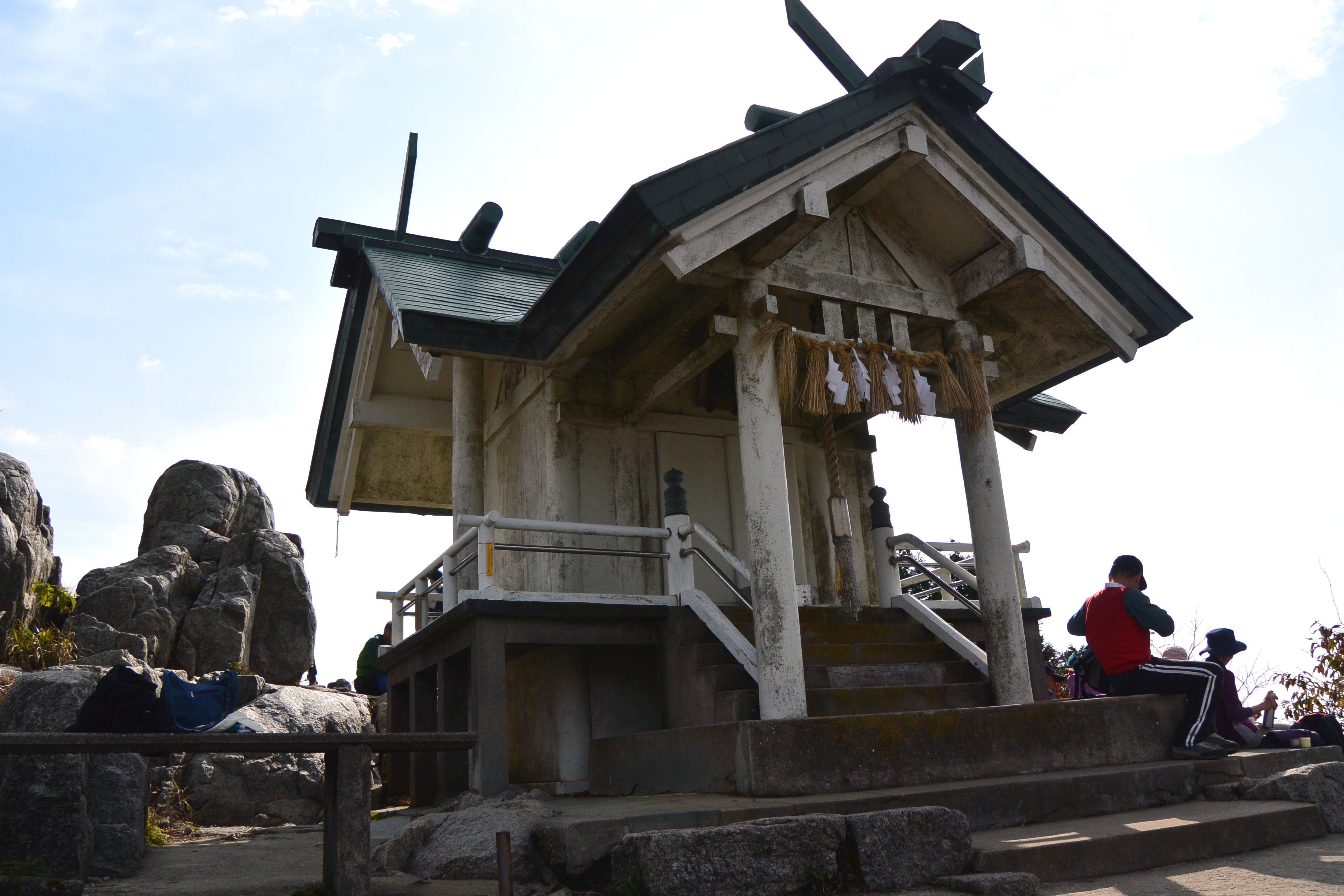 Kamado jinja uemiya placed peak of homanzan near Dazaifu shrine